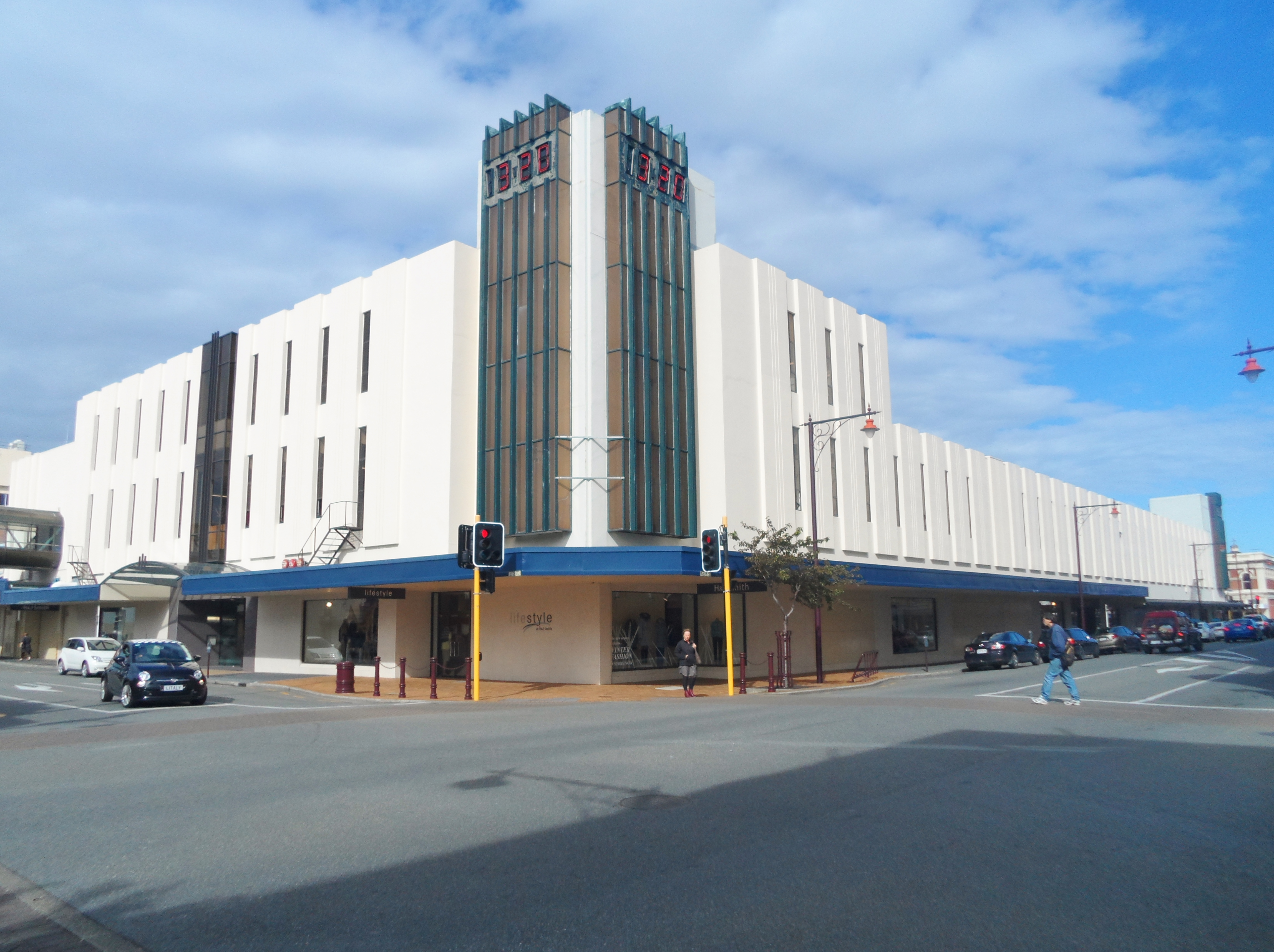 H & J Smith department store in Invercargill, New Zealand. Corner of Kelvin Street and Esk Street.